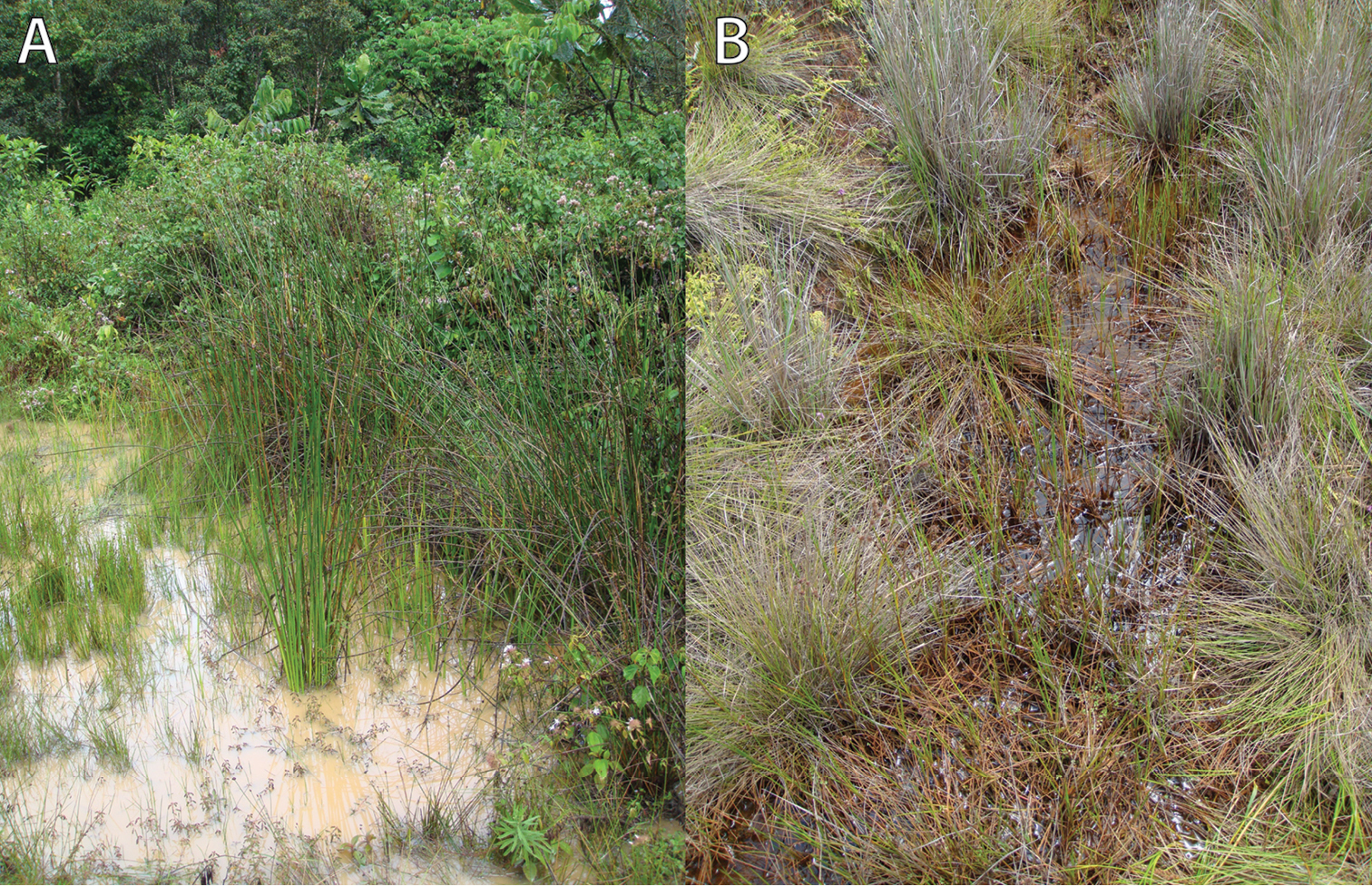 Hyperolius castaneus and H. jackie tadpole habitats in the Nyungwe National Park. A: Karamba swamp. B: Uwasenkoko swamp. . Photos by U. Sinsch.